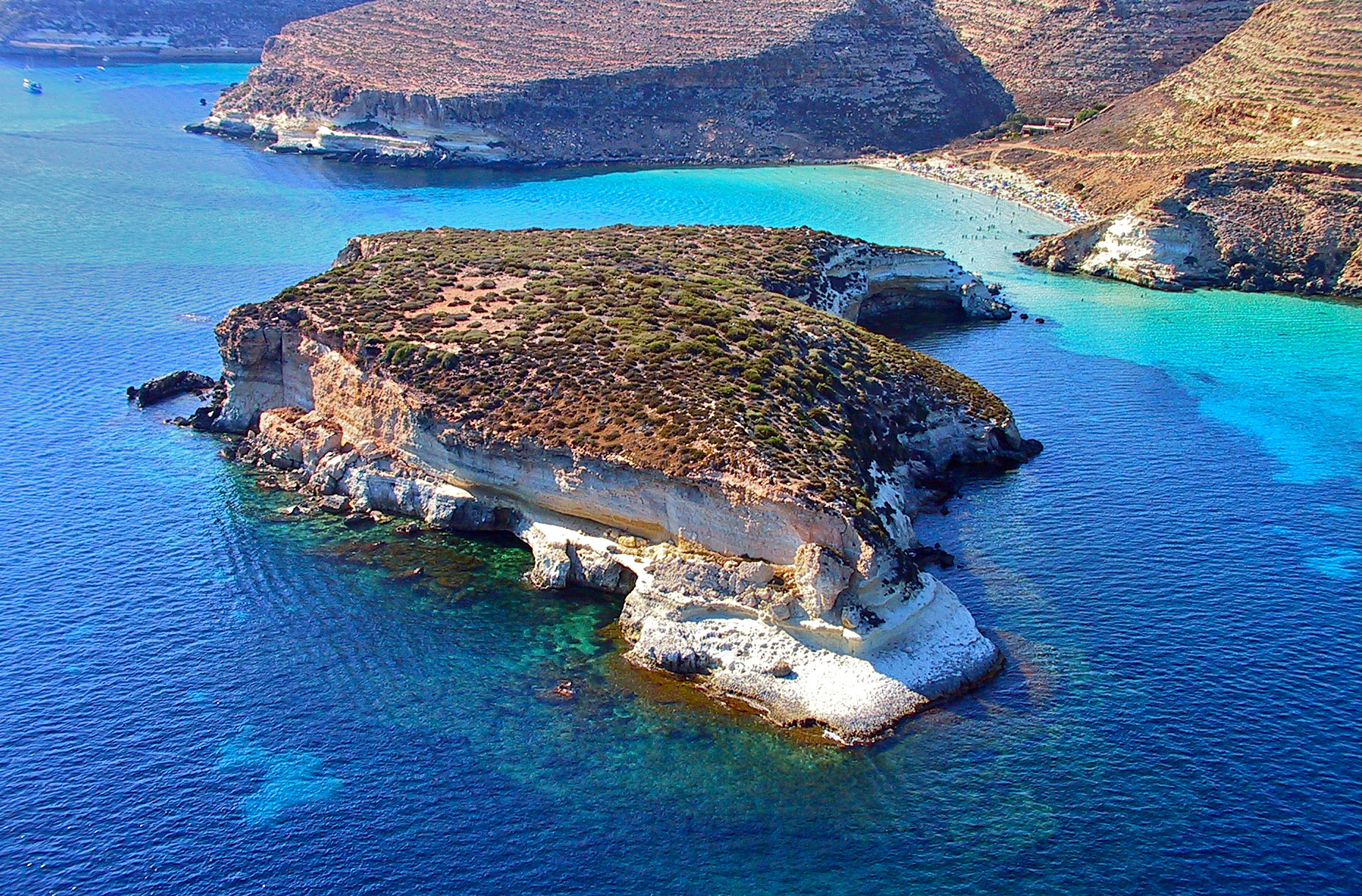 The Rabbit islet (Isola dei Conigli) located close to the Lampedusa island in the central part of the Mediterranean Sea. It is part of the Italian Pelagie Islands.